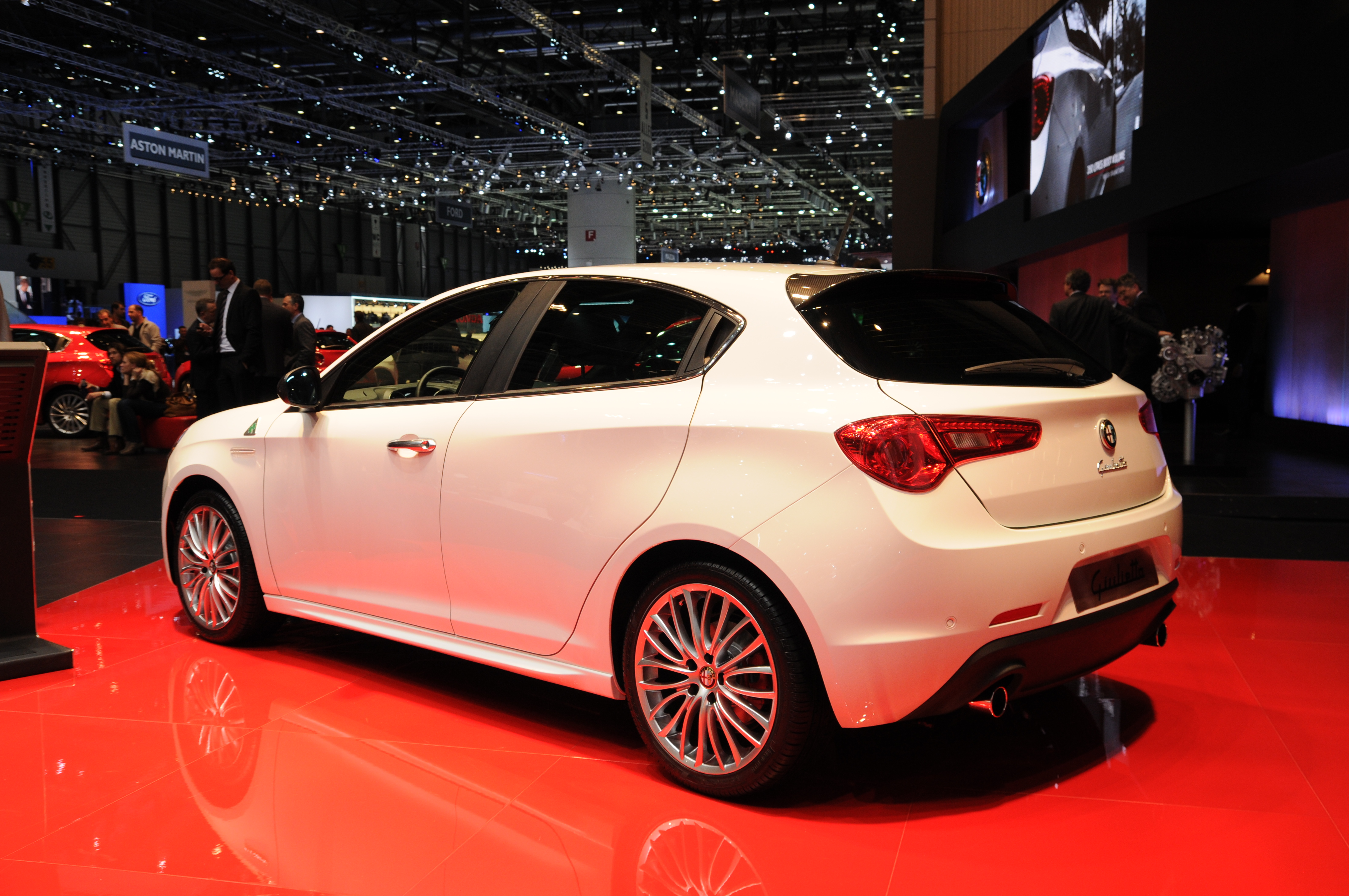 Geneva Motor Show 2012 (photos taken on the second press day)